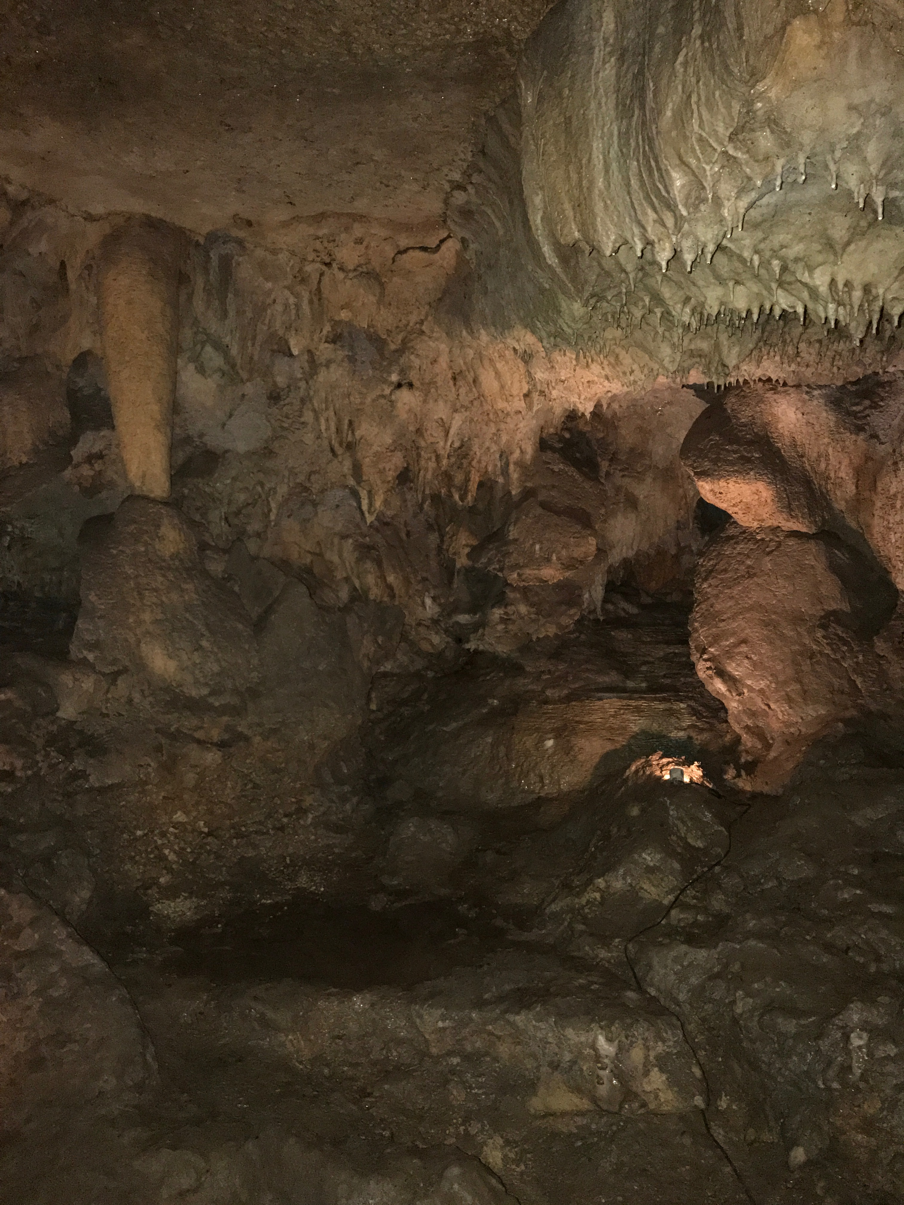 A pretty little grotto between the Imagination Room and Storm Canyon. To the right are the Twin Sisters Stalagtite/Stalagmite formation.